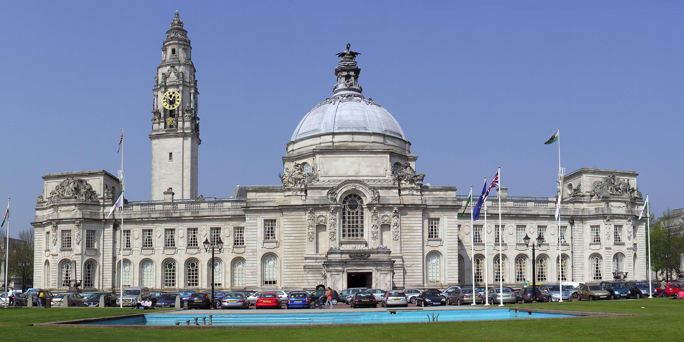 Cardiff City Hall, croppedfrom a panorama by User:Yummifruitbat